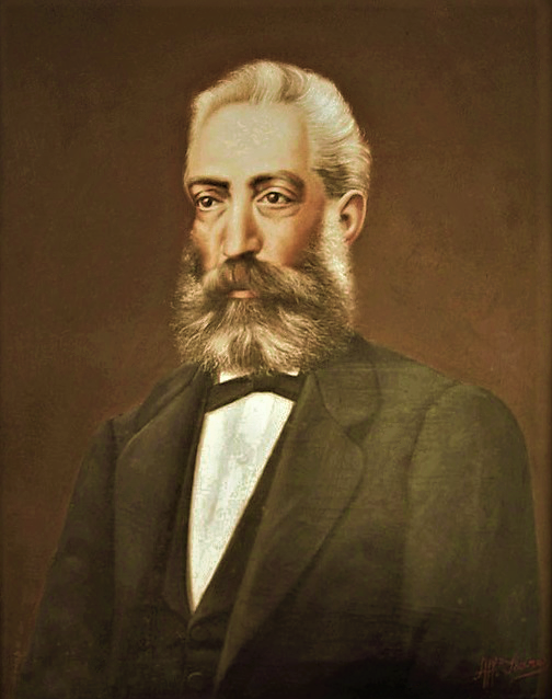 Portrait of António Bernardo Ferreira (1835-1907), Portuguese politician and businessman, son of Antónia Adelaide Ferreira (1811-1896).